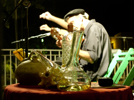 Catalan guitarist Jordi Fusté performing as lo Mut de Ferreries in Picassent, pictured behind Batea's wine